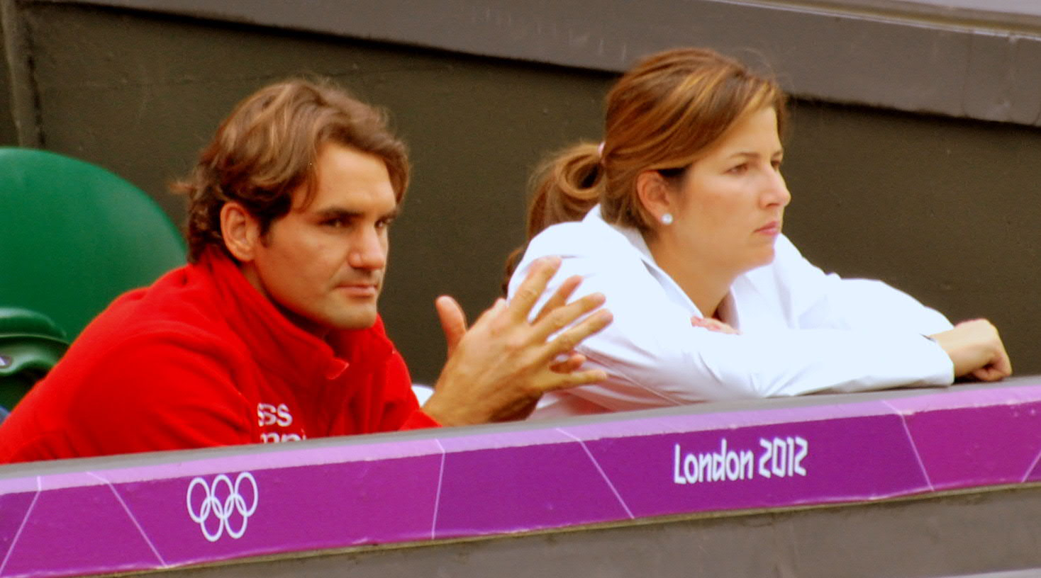 Roger and Mirka at 2012 London Olympics